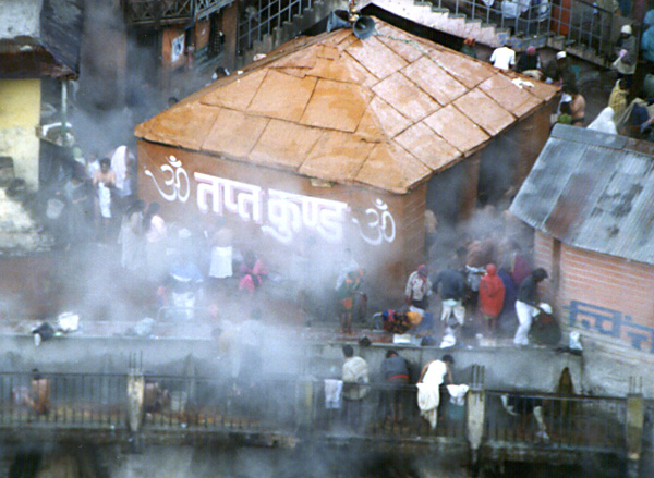 Tapt Kund hot springs next to Badrinath Temple.